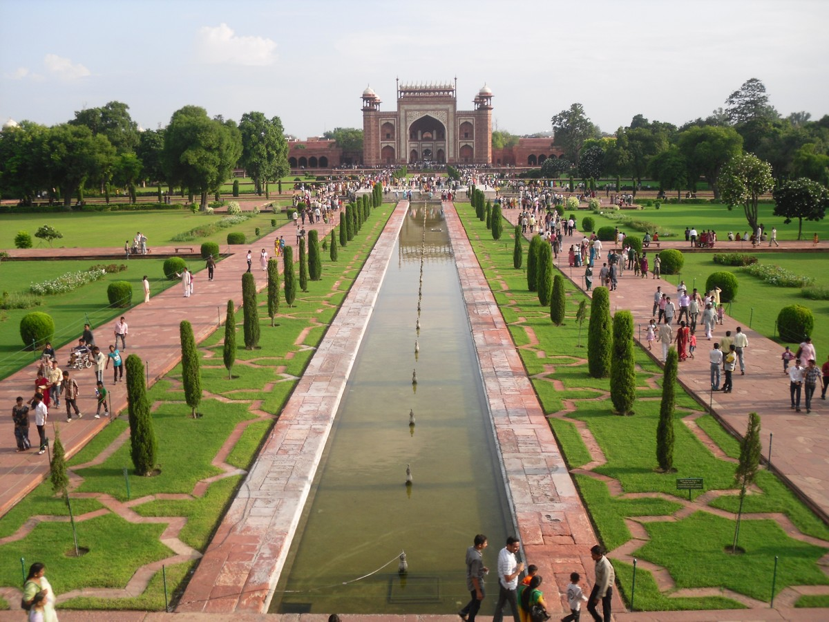 Taj Mahal walkway